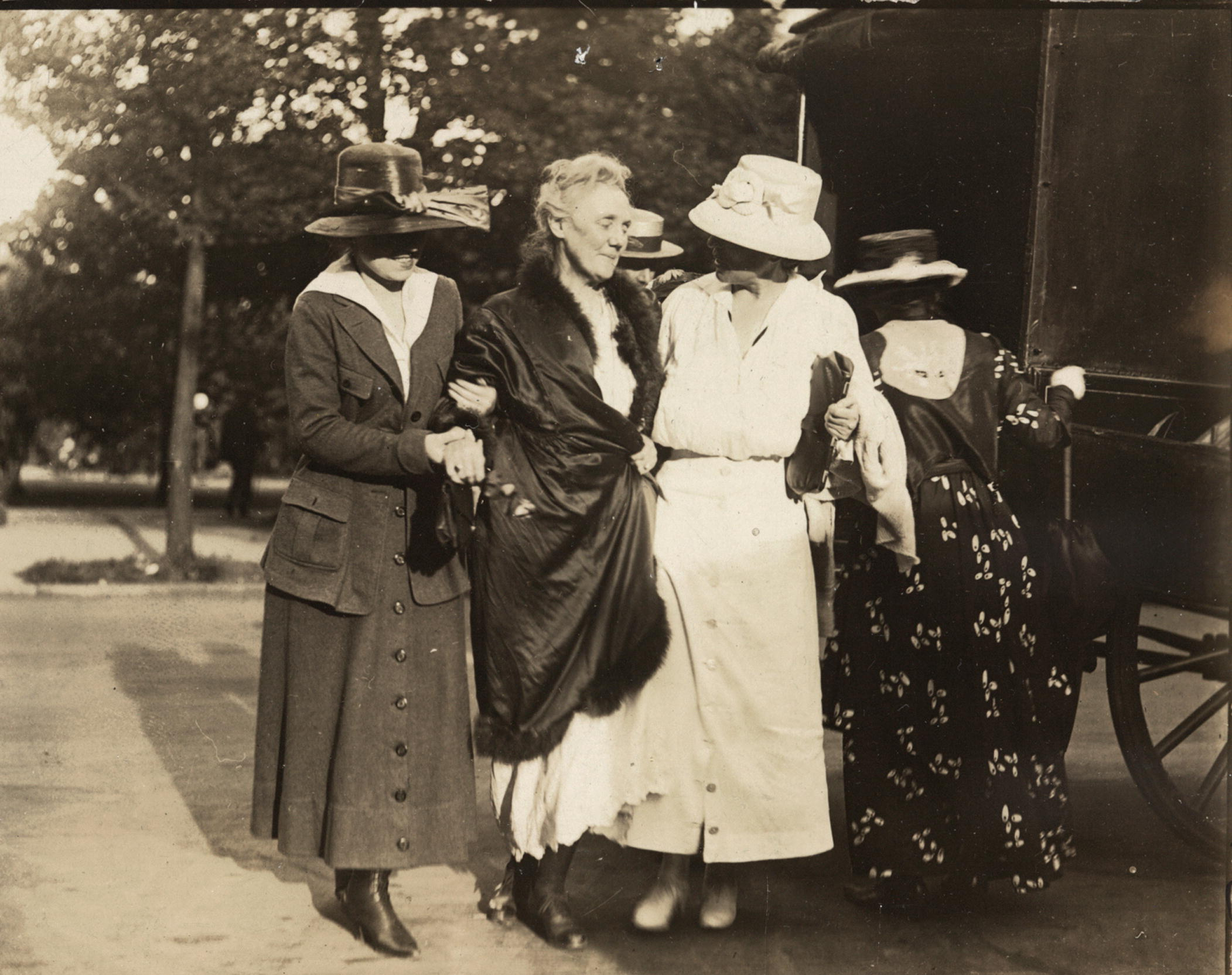 Outdoor photograph of Mrs. Lawrence Lewis (Dora Lewis) (center) upon her release from jail, where she participated in hunger strike after arrest at Lafayette Square meeting, being physically supported by Clara Louise Rowe (left) and Abby Scott Baker from wagon (right). There is also another woman with her back to the camera (right) and two other individuals (mostly obscured) behind them. Mrs. Lawrence Lewis (Dora Lewis) of Philadelphia, was a descendent of one of the founders of the Philadelphia Academy of Fine Arts, and part of a prominent Philadelphia family of professionals, philanthropists, and settlement house activists. She was a member of the executive committee of the NWP beginning in 1913, chairman of finance committee in 1918, national treasurer in 1919, chairman of the ratification committee in 1920, and active in state suffrage work for many years. She served three days in District Jail for picketing for suffrage in July 1917; she was arrested again Nov. 10, 1917, and sentenced to 60 days; and she was arrested at Lafayette Square meeting in August 1918, and sentenced to 15 days; she was arrested once more during the watchfire demonstrations of January 1919, and sentenced to five days in jail. Source: Doris Stevens, Jailed for Freedom (New York: Boni and Liveright, 1920), 364.